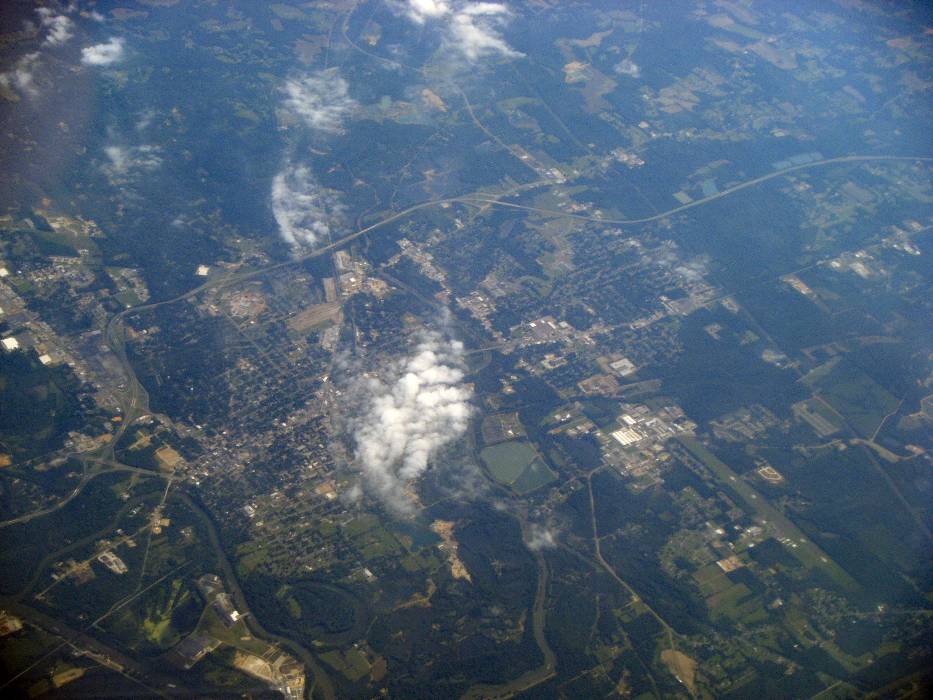 A view of Columbus, Mississippi taken from an airplane